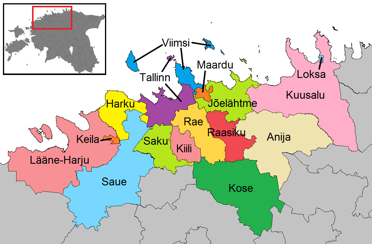 Map of the municipalities of Harju County after the Administrative Reform of Estonia in 2017.